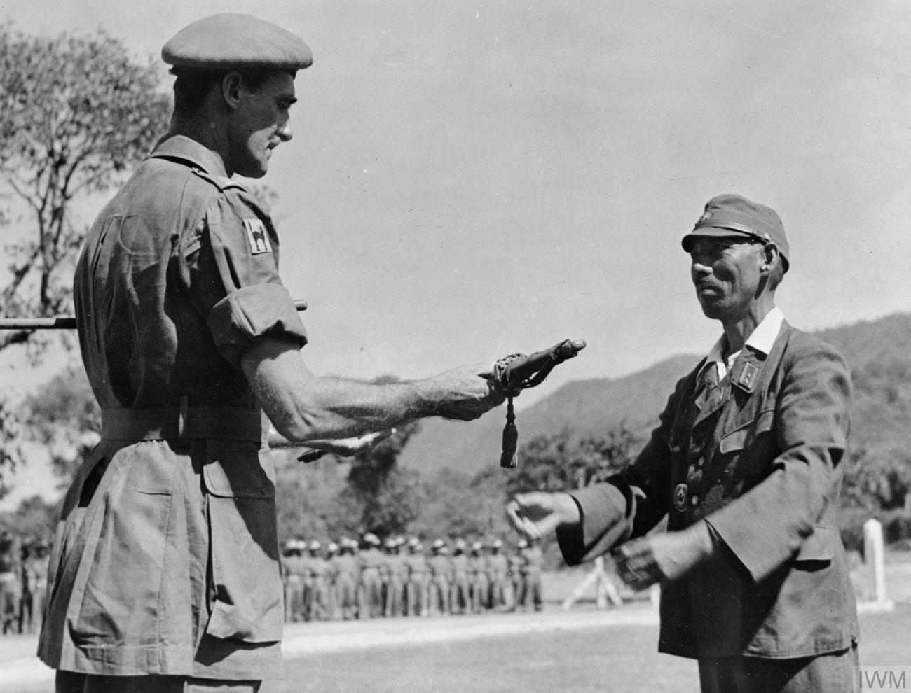 Surrender of the Japanese 33rd Army Lieutenant General Kawada, commander of the Japanese 31st Division, hands his sword to Major General Arthur W Crowther, DSO, commander of the 17th Indian Division, at Thaton, north of Moulmein, Burma.